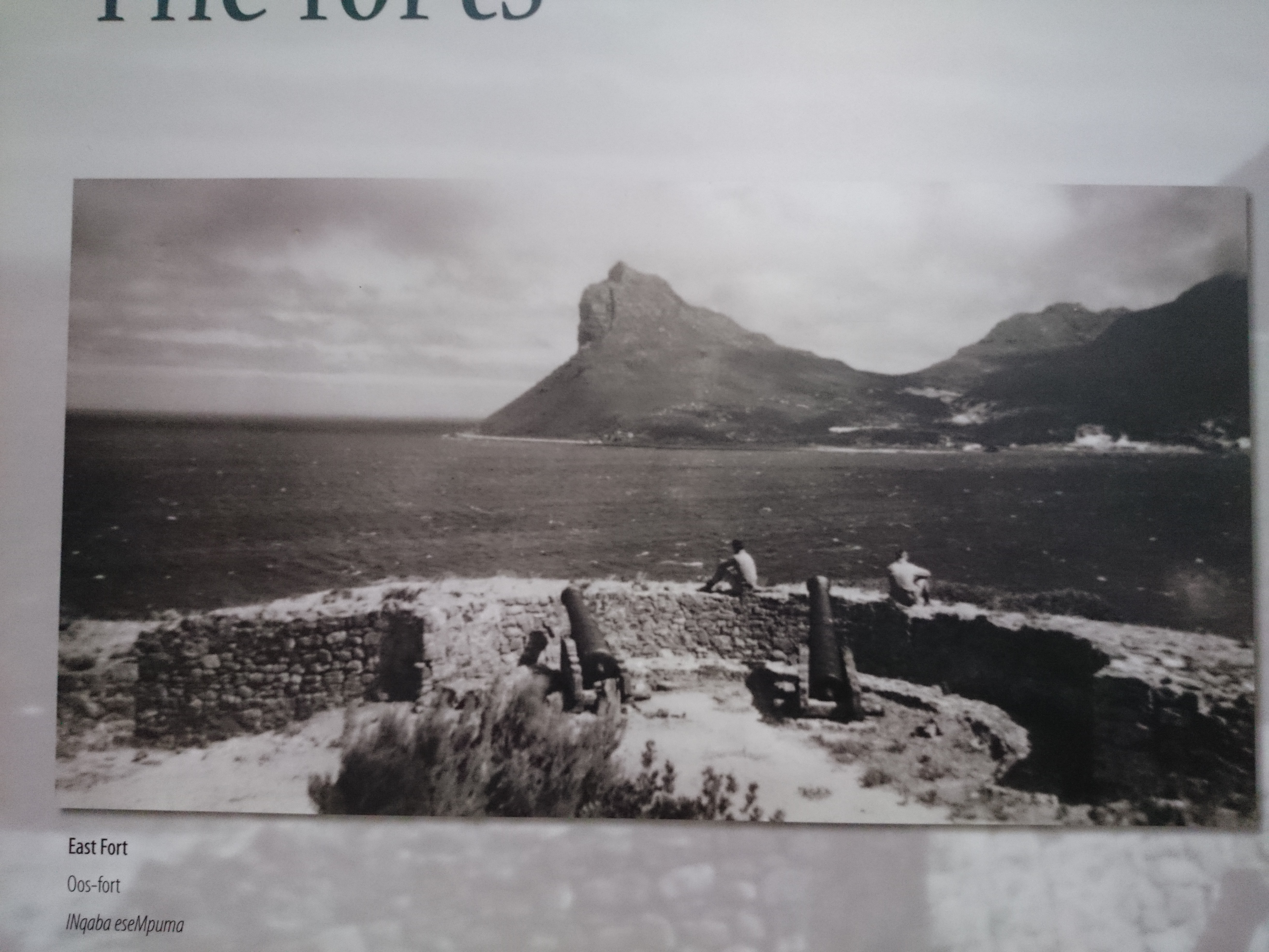 East Fort, one of the forts at Hout Bay, a very old photograph of how the fort looked like.